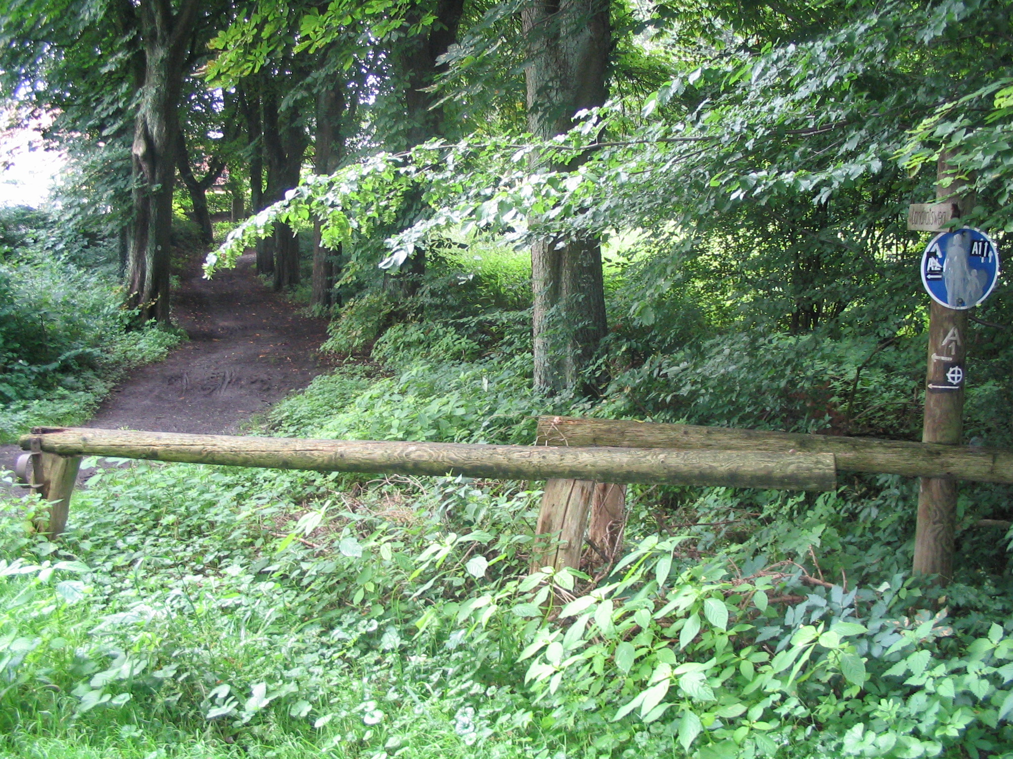 Katzenholz forest in town of Spenge, District of Herford, North Rhine-Westphalia, Germany.